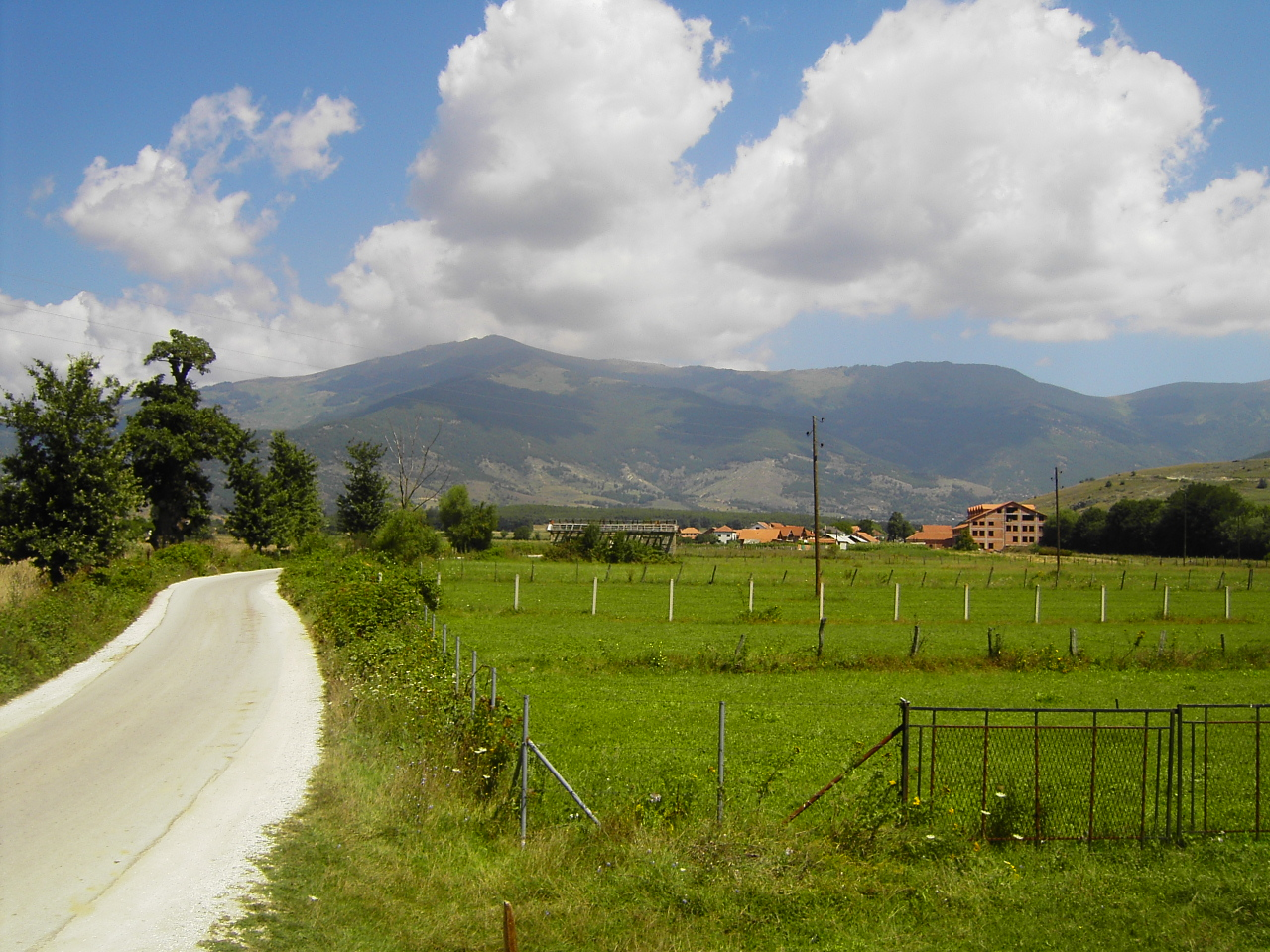 Village of Arhangel, Republic of Macedonia